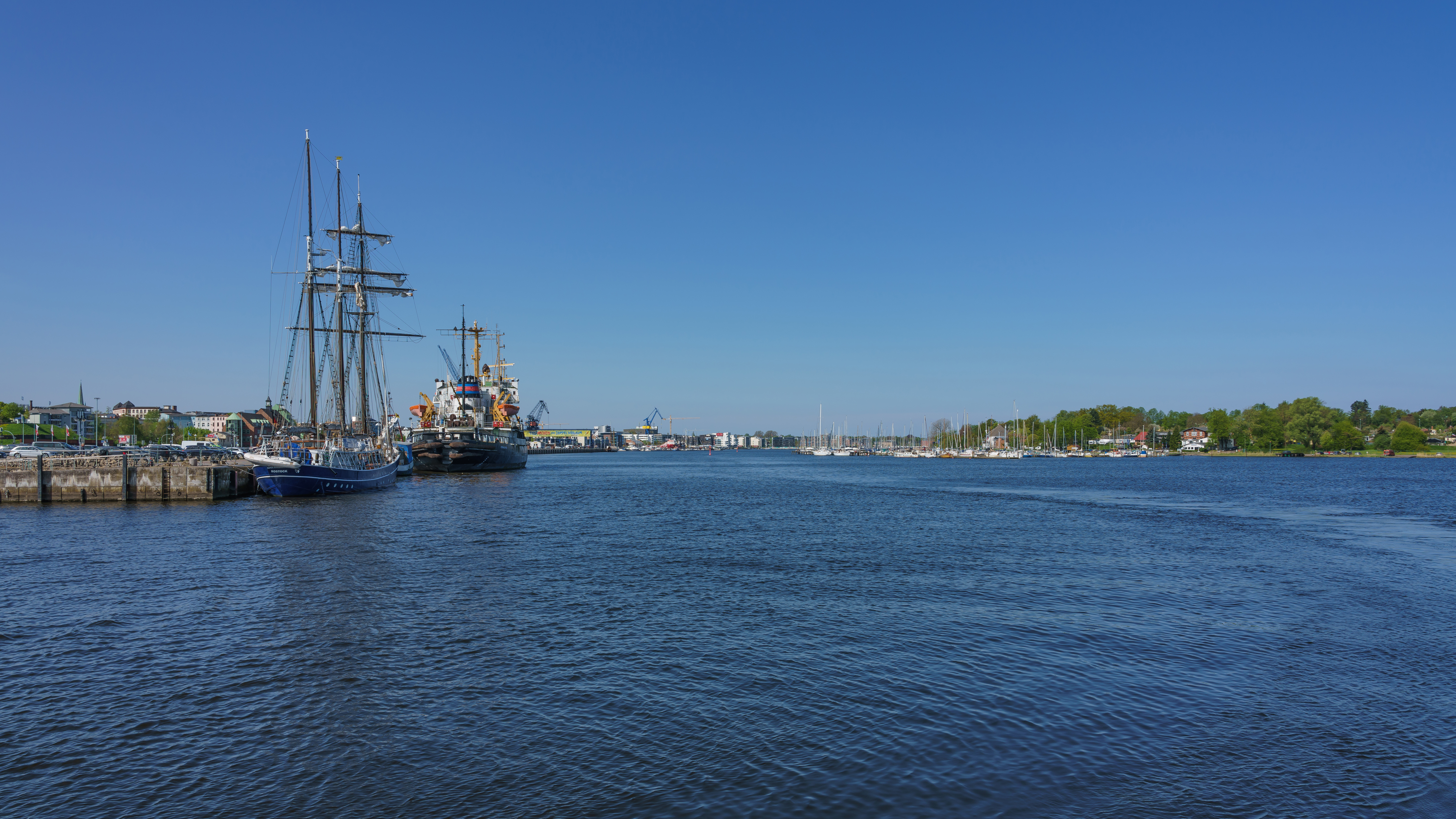 Urban harbour in Rostock, Germany